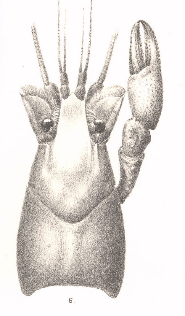 Cambarus Montezumae, var. tridens Von Mart. Female. Mexico Subject: Cambarus, Crayfish Tag: Shellfish